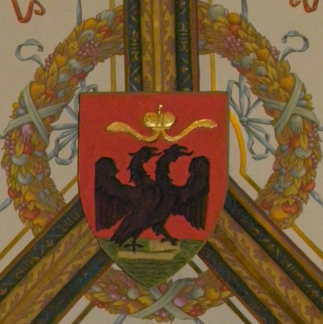 Coat of arms of Rijeka (Fiume). Ceiling in the stairs hall in the Parliament building, Budapest.